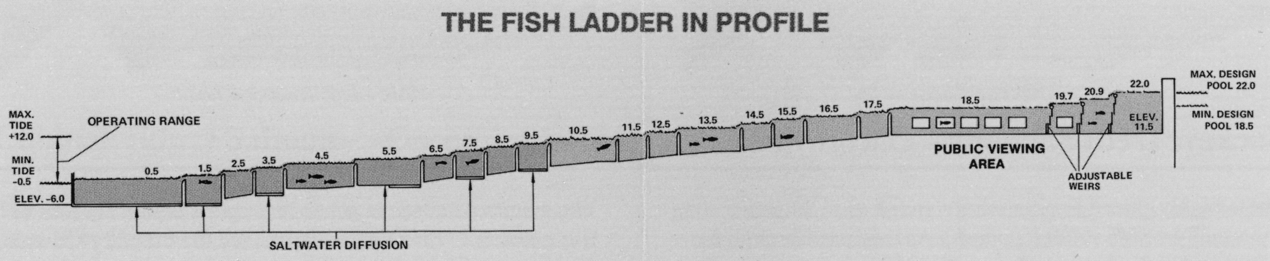 From a pamphlet about the Lake Washington Ship Canal Fish Ladder at the Hiram M. Chittenden Locks, Seattle, Washington. Diagram of the fish ladder in profile. The actual fish ladder makes several right angle turns, which are not reflected in this diagram. Caption from the pamphlet: This shows the the height of each weir. Most weirs are one foot higher than the previous one. The last three weirs are adjustable to the level of Salmon Bay. Salt water is mixed with fresh water by the diffuser well in weirs indicated by dark blue [dark gray in scan]. The longest weir in the ladder was created when the fish viewing window was built for your viewing pleasure. Scanned at 600 dpi (grayscale) and cleaned up.